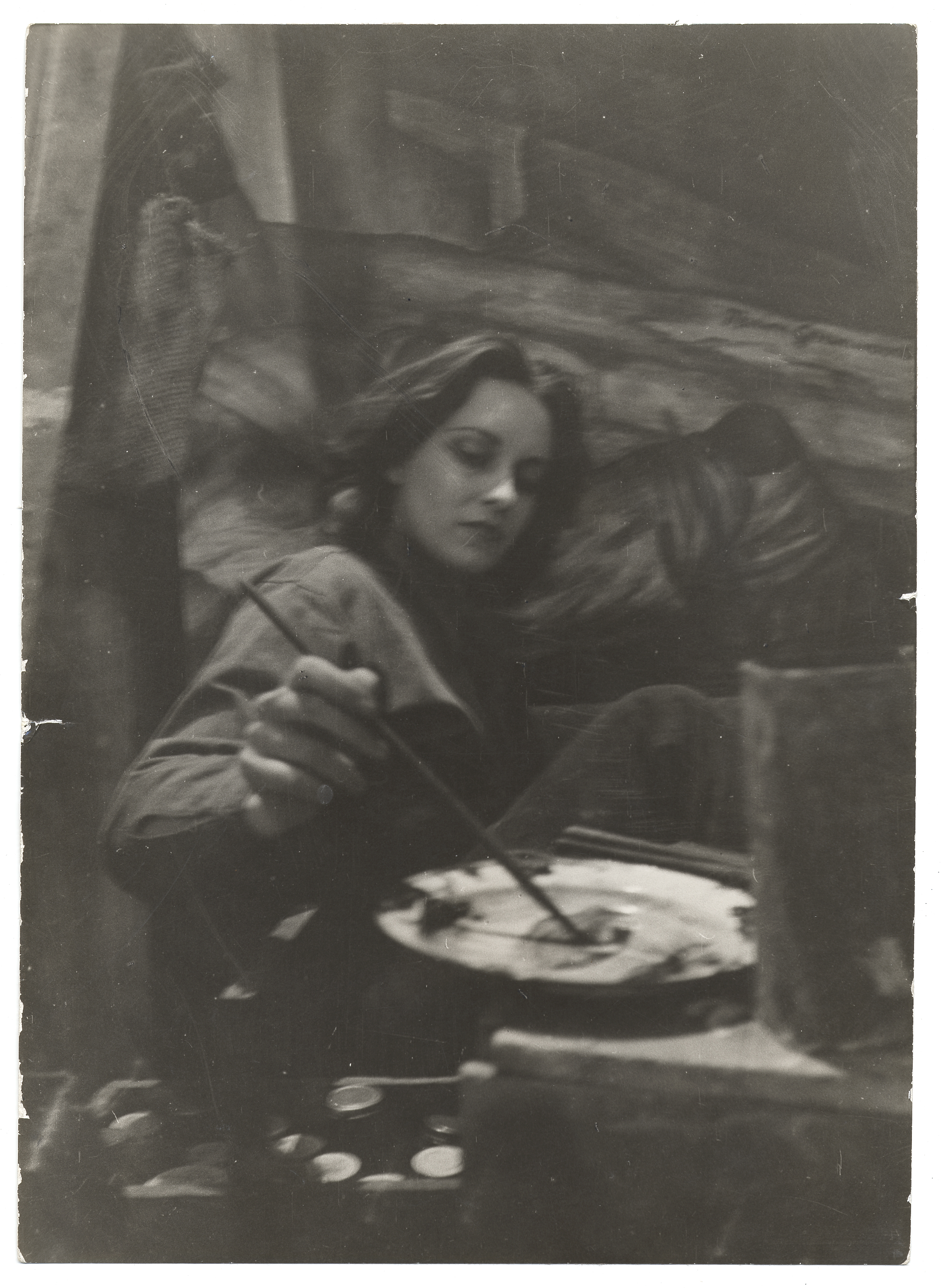 Greenwood painting a mural for the WPA Federal Art Project. Identification on verso:(handwritten): Marion Greenwood painting on fresco-murals in Mexico City "Mercado Rodriguez Civic Center," 1936. Murals executed for Mexican Government.